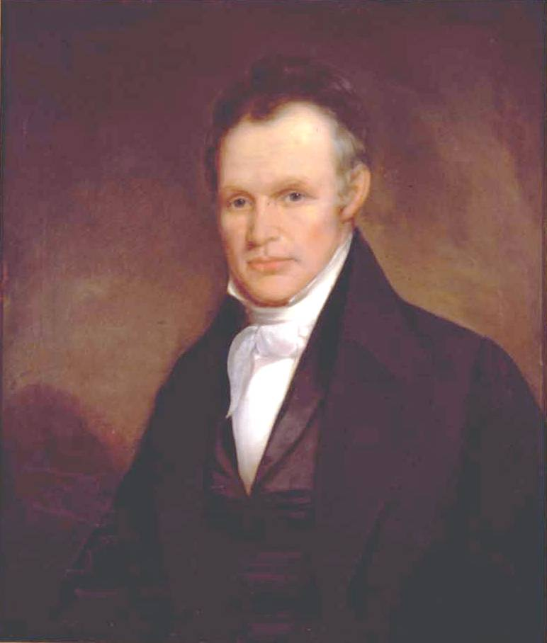 Portrait of Newton Cannon (1781-1841), former Governor of Tennessee.